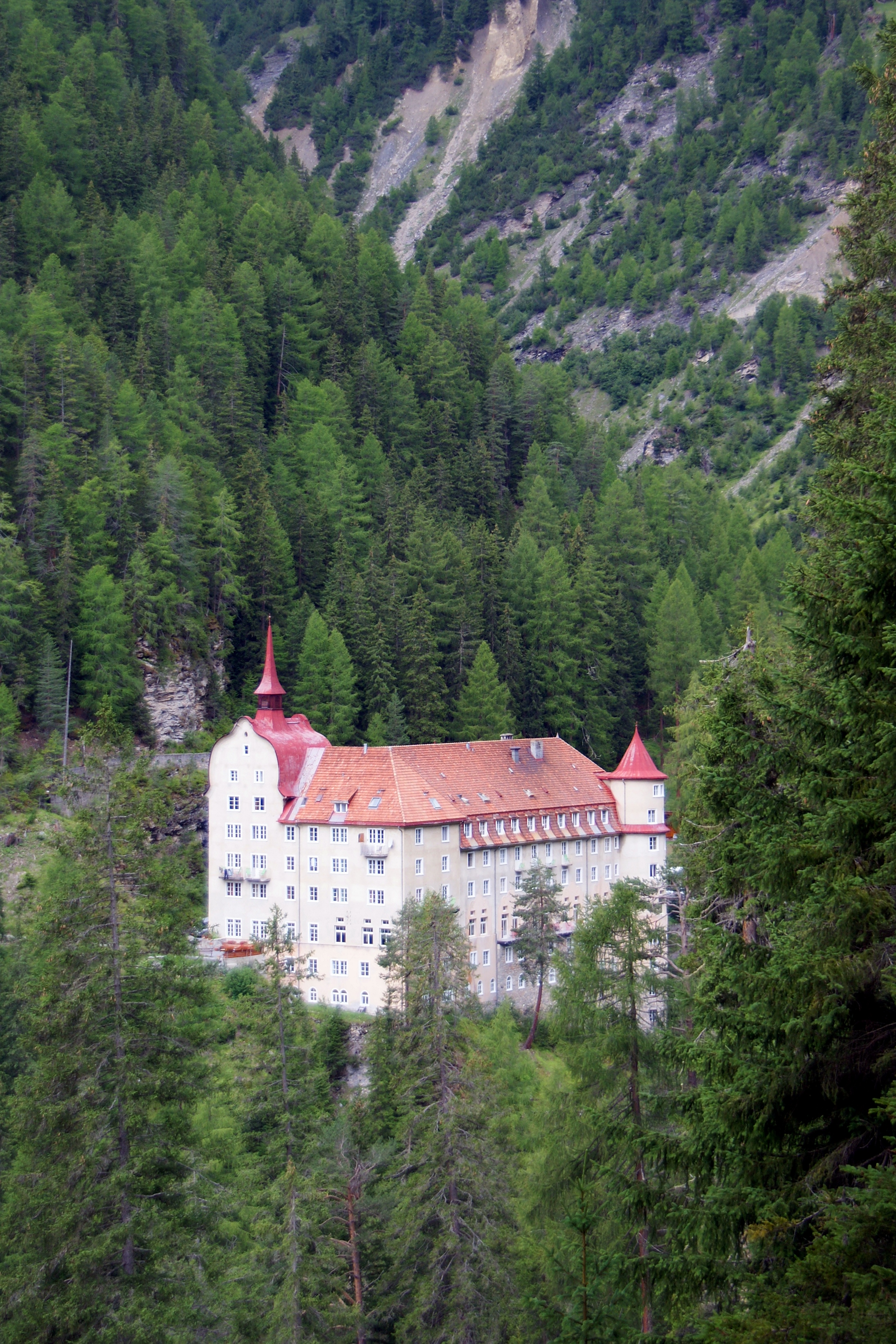 Hotel Val Sinestra, Lower Engadine